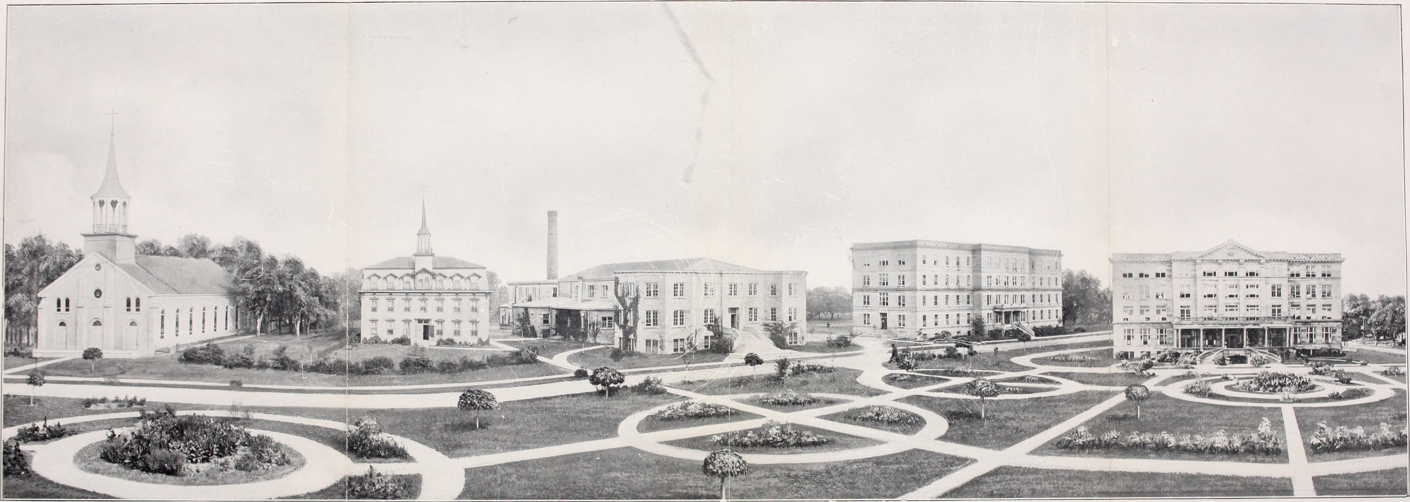 Title: Annual catalog St. Viator College Year: 1871 (1870s) Authors: St. Viator College (Bourbonnais, Ill.) Subjects: St. Viator College (Bourbonnais, Ill.) Universities and colleges Publisher: (Bourbonnais, Ill. : St. Viator) Text Appearing Before Image: 4 Text Appearing After Image: ST. VIATOR COLLEGE, KANKAKEE, ILLINOIS ANNUAL CATALOG ST. VIATOR COLLEGE BOURBONNAIS KANKAKEE COUNTY, ILLINOIS